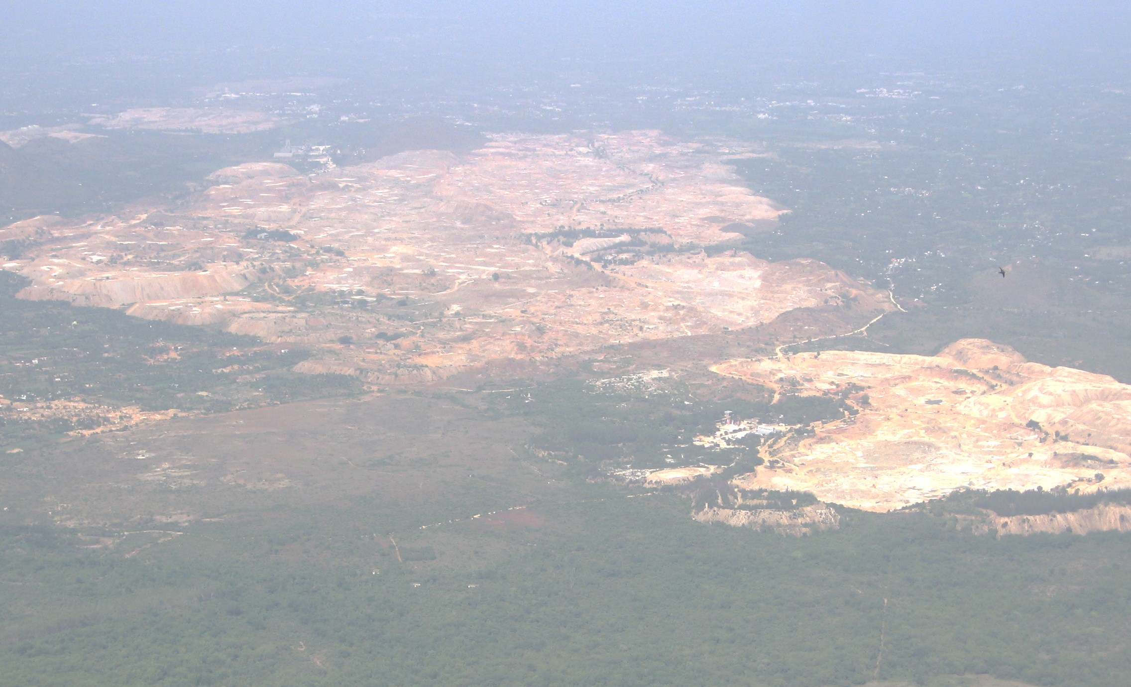 Tamilnadu Magnesite Limited (TANMAG)Salem Magnesite Mine view from Yercaud hill